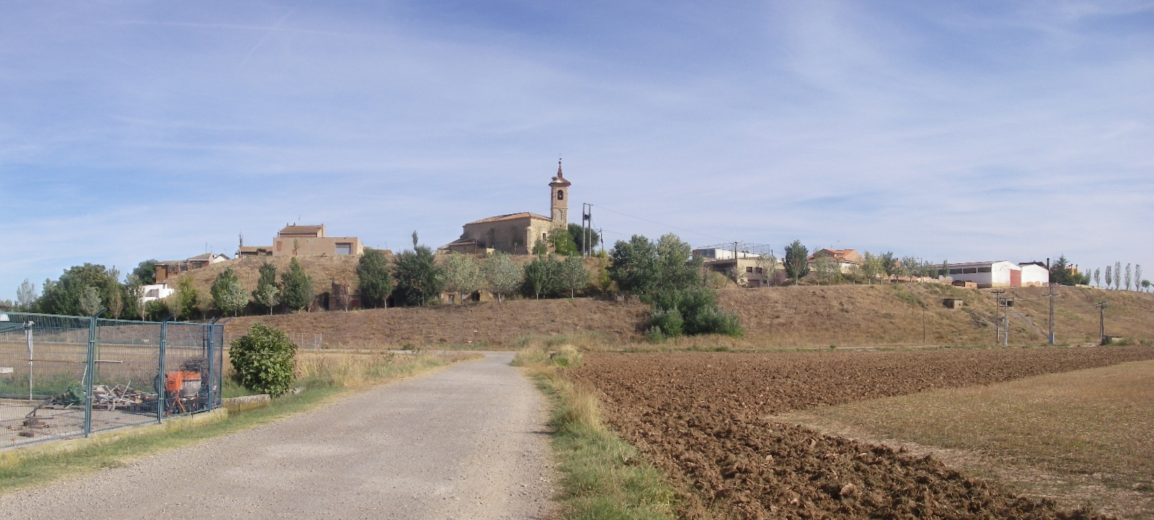 View of Arrúbal (La Rioja, España)